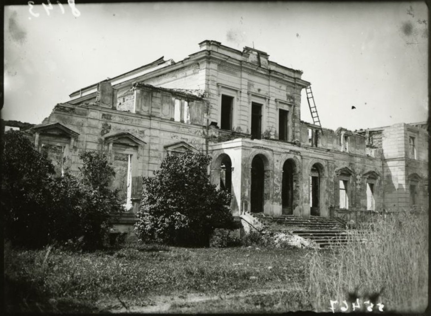 Līksna manor house shortly after WWI